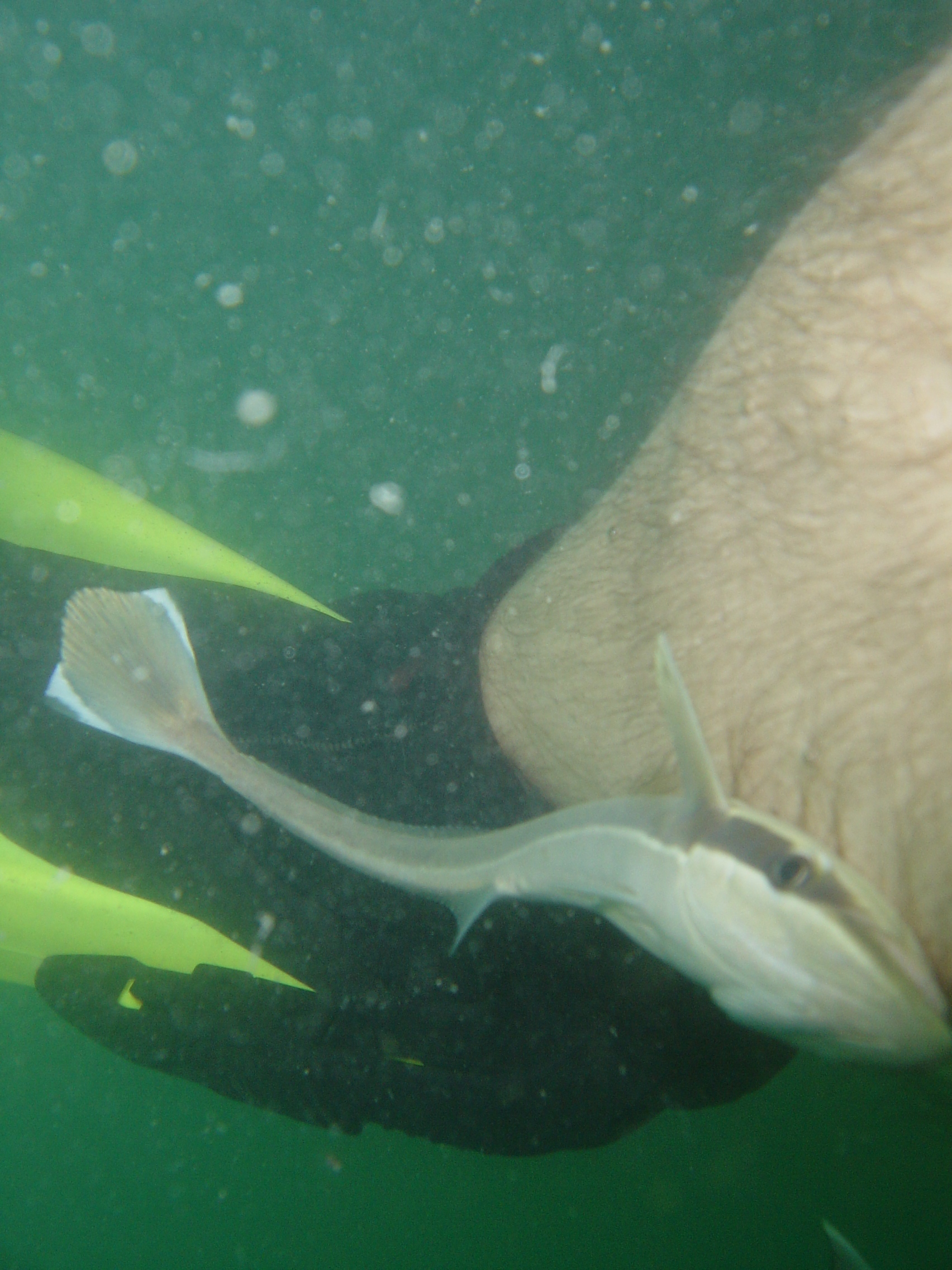 Remora fish on diver's leg. Riau islands, Indonesia.